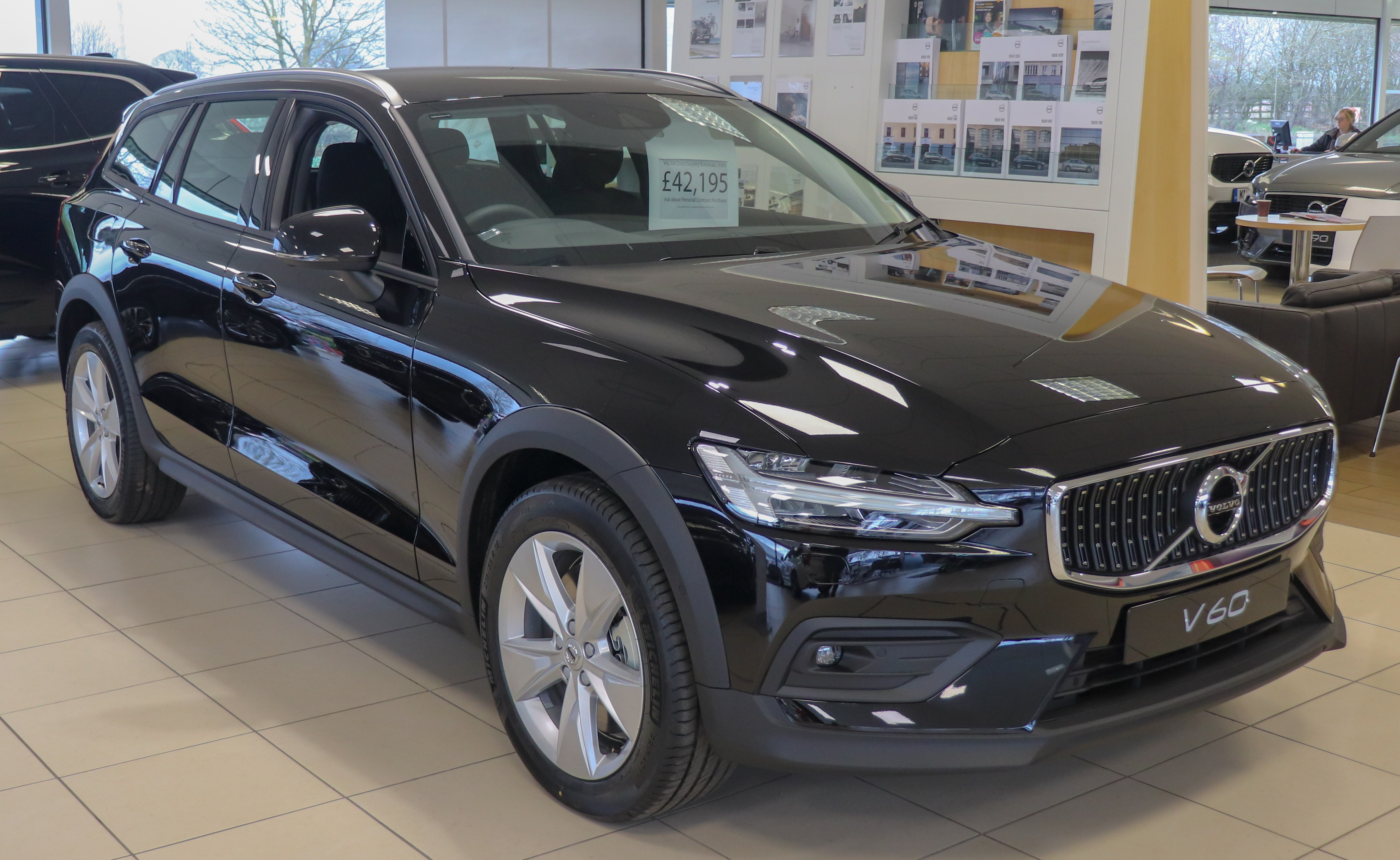 2019 Volvo V60 Cross Country D4 Automatic AWD Front